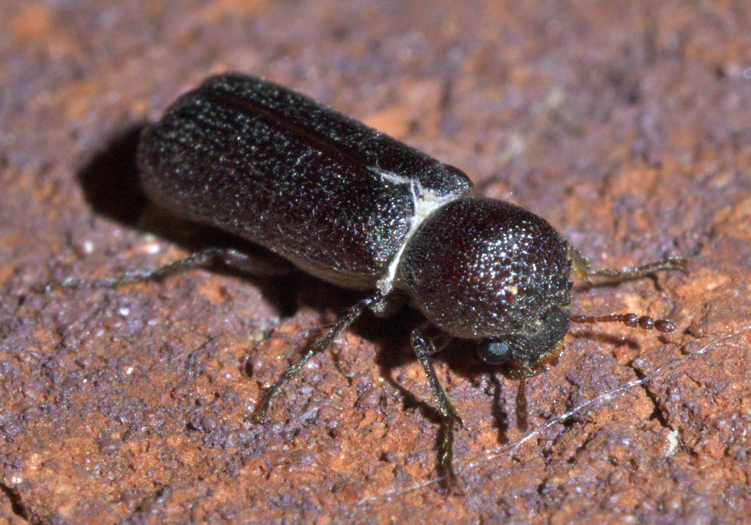 Amphicerus bicaudatus, Apple Twig Borer, ID Confidence: 98